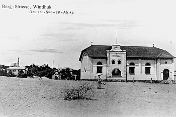 A postcard of the Turnhalle building in Windhoek before its 1912/1913 extension